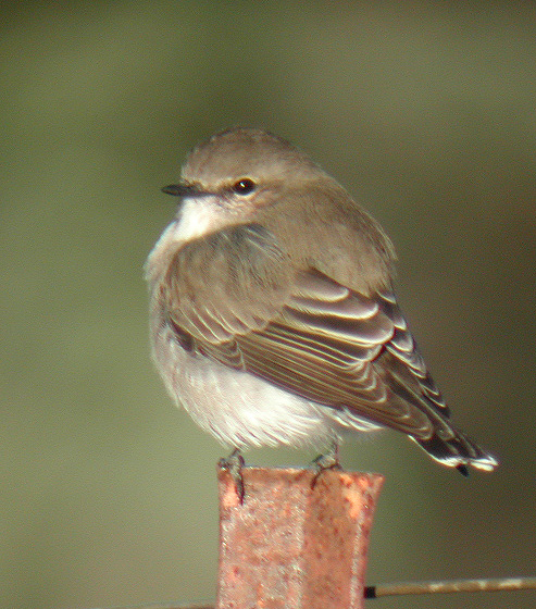 Jacky Winter (Microeca fascinans) Sundown NP, S. Queensland, Australia